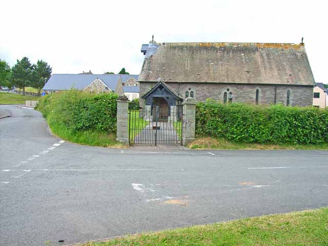 Libanus Chapel. Although the chapel at Libanus is of nineteenth century foundation, most of the rest of the village of Libanus on the A470 comprises modern bungalows and houses.